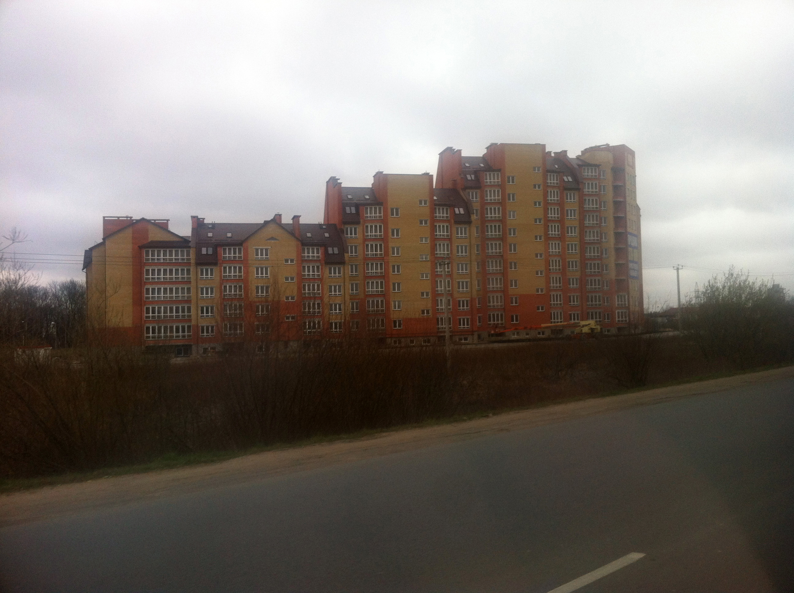 View of micro-district «Cheryomushki» in village of Vasil'kovo from side of Bol'shaya Okruzhnaya Street.